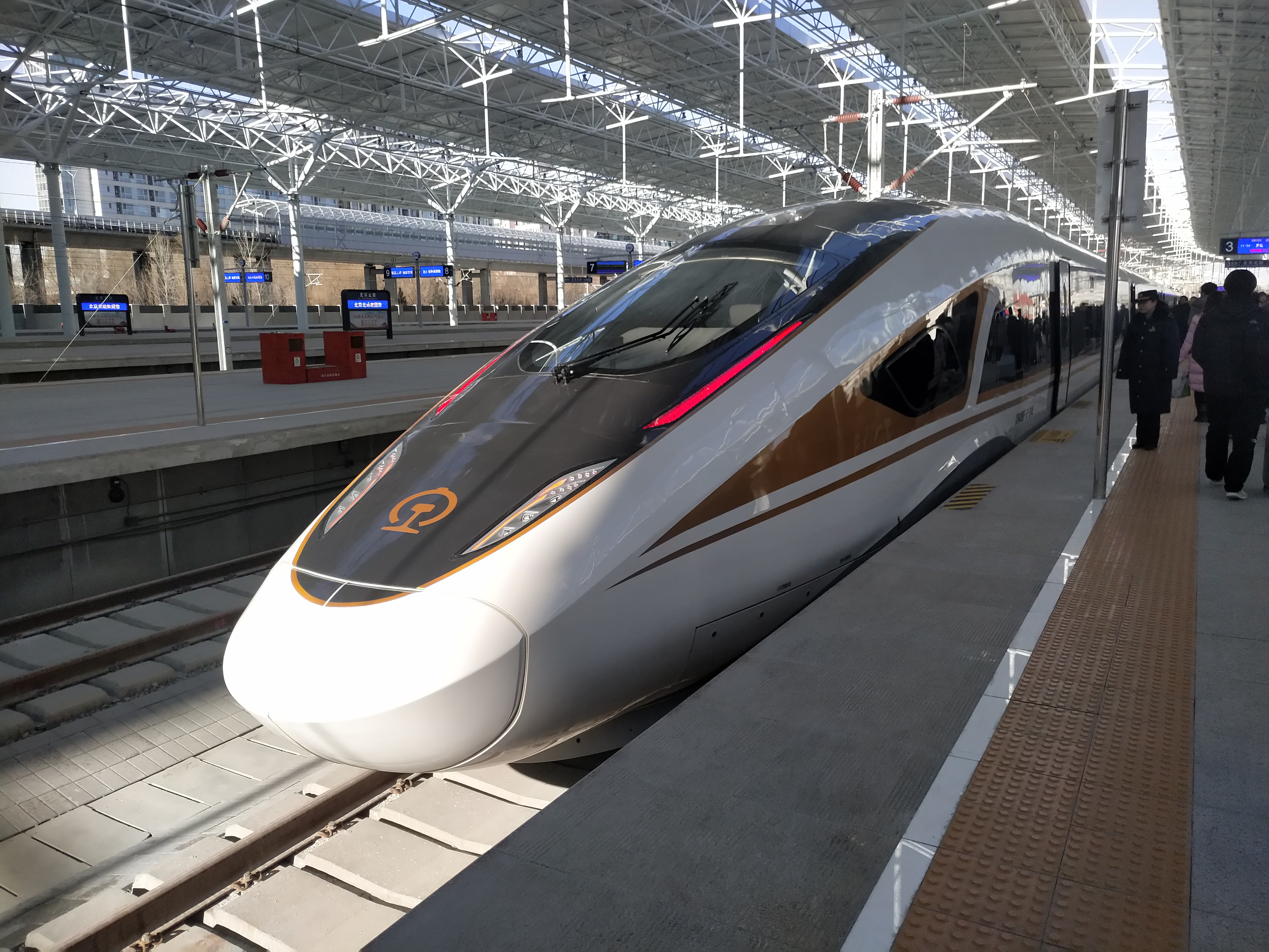 CR400BF-C-5140 at Platform 3 of the Beijing North Railway Station. Taken in January 1st, 2019.